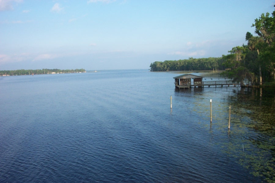 St. John's River with Drayton Island on right